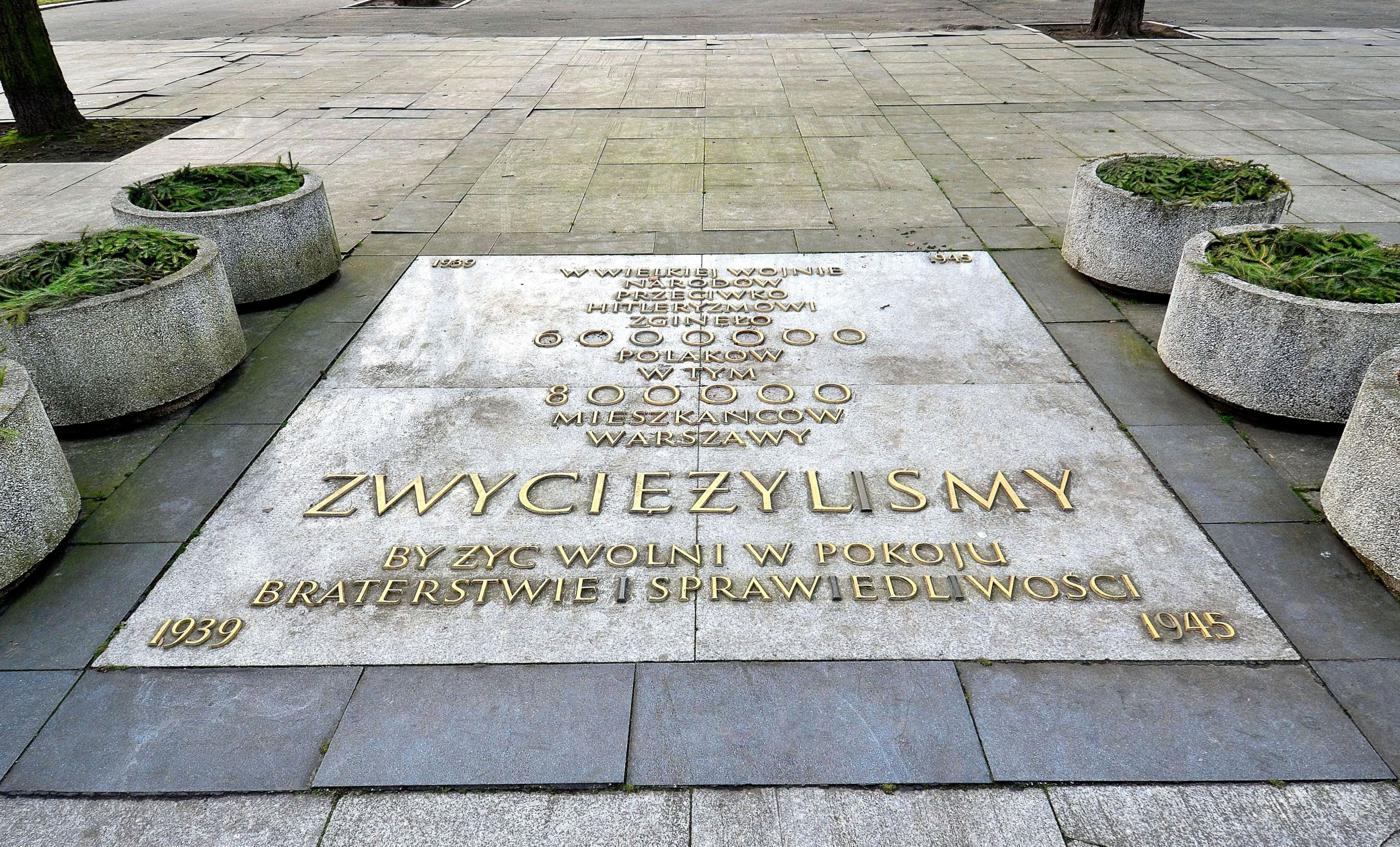 Plaque in memory of 6 million Poles who died during WWII in the Saxon Garden in Warsaw